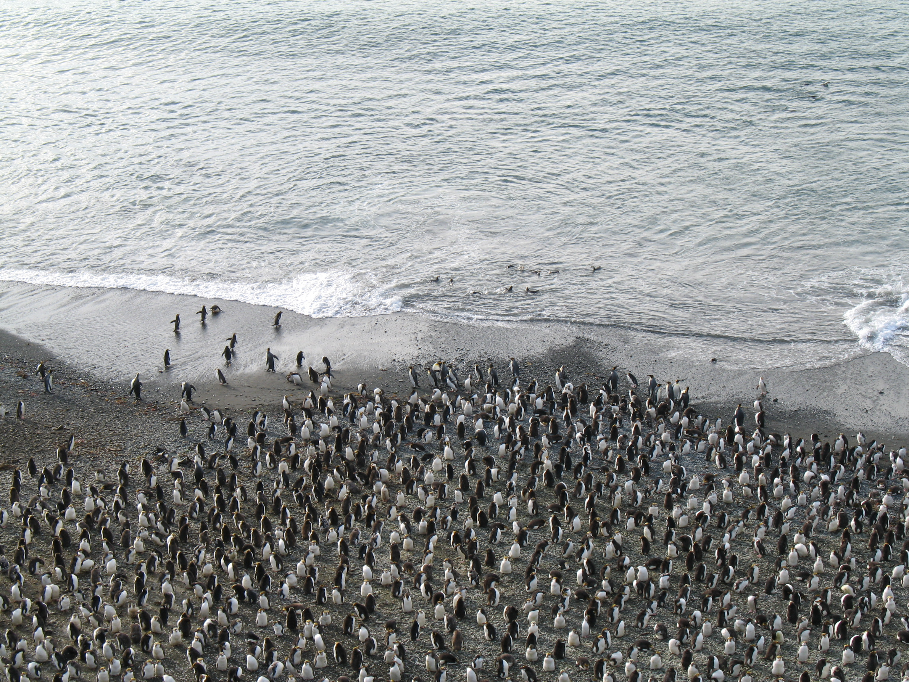 Royal penguins on a Macquarie Island beach